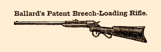 Additional title: Ballard's patent breech-loading rifle